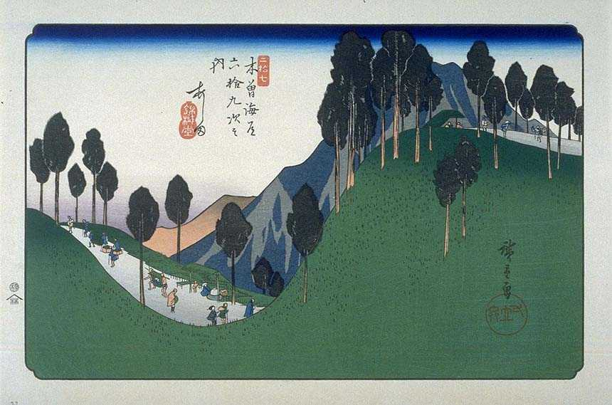 Ashida on the Kisokaido, ukiyo-e prints by Hiroshige